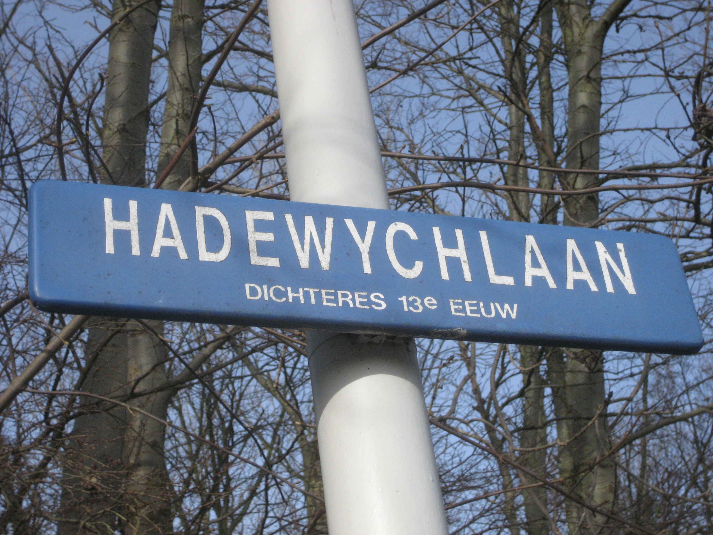 Hadewychlaan, Leiden (The Netherlands)